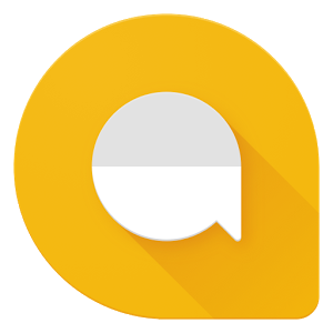 Logo for the Google messaging app "Allo"